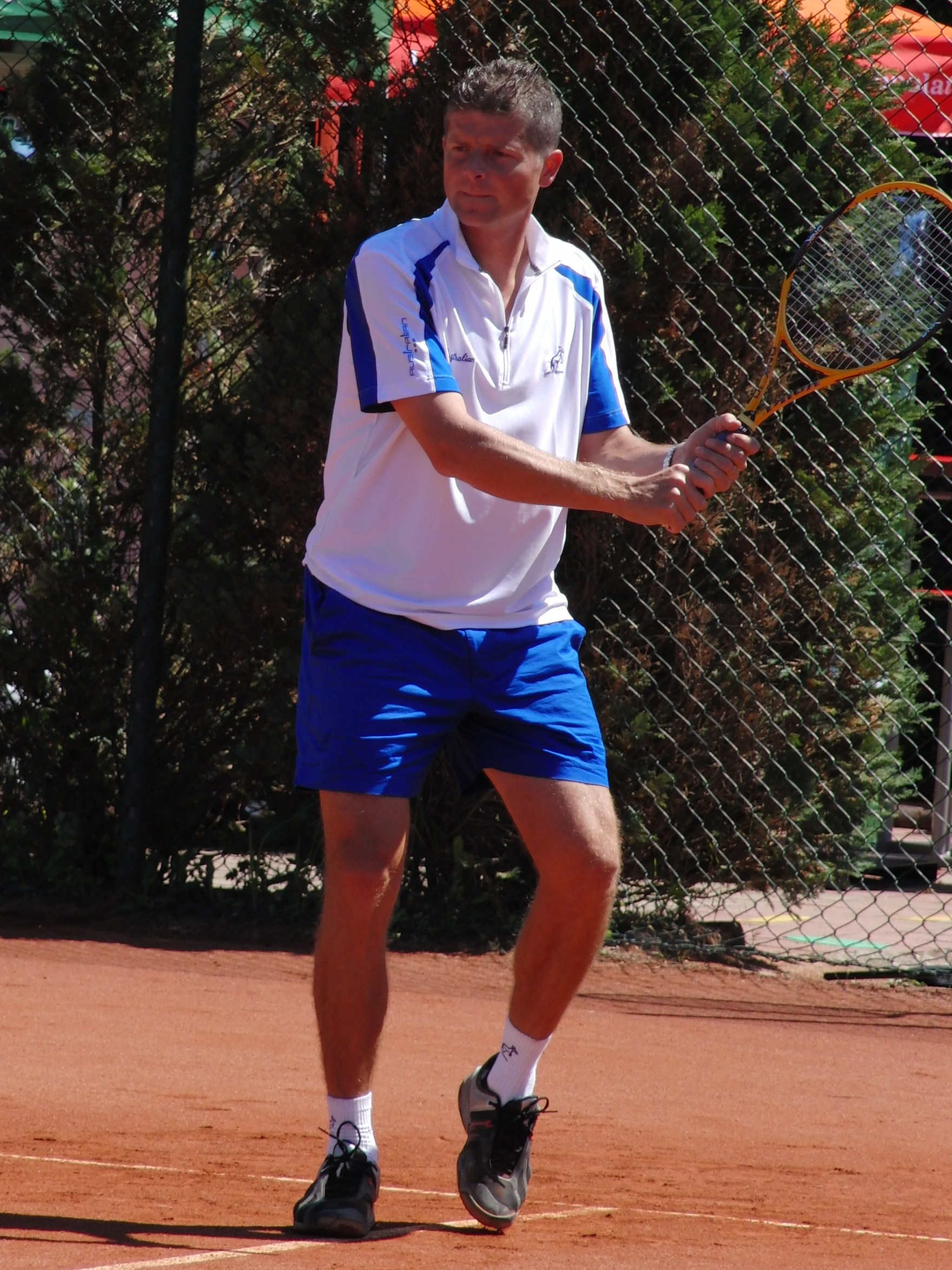 Tennis player Jiri Novak in VIP tournament in Zlin Česky: Tenista Jiří Novák na VIP turnaji ve Zlíně